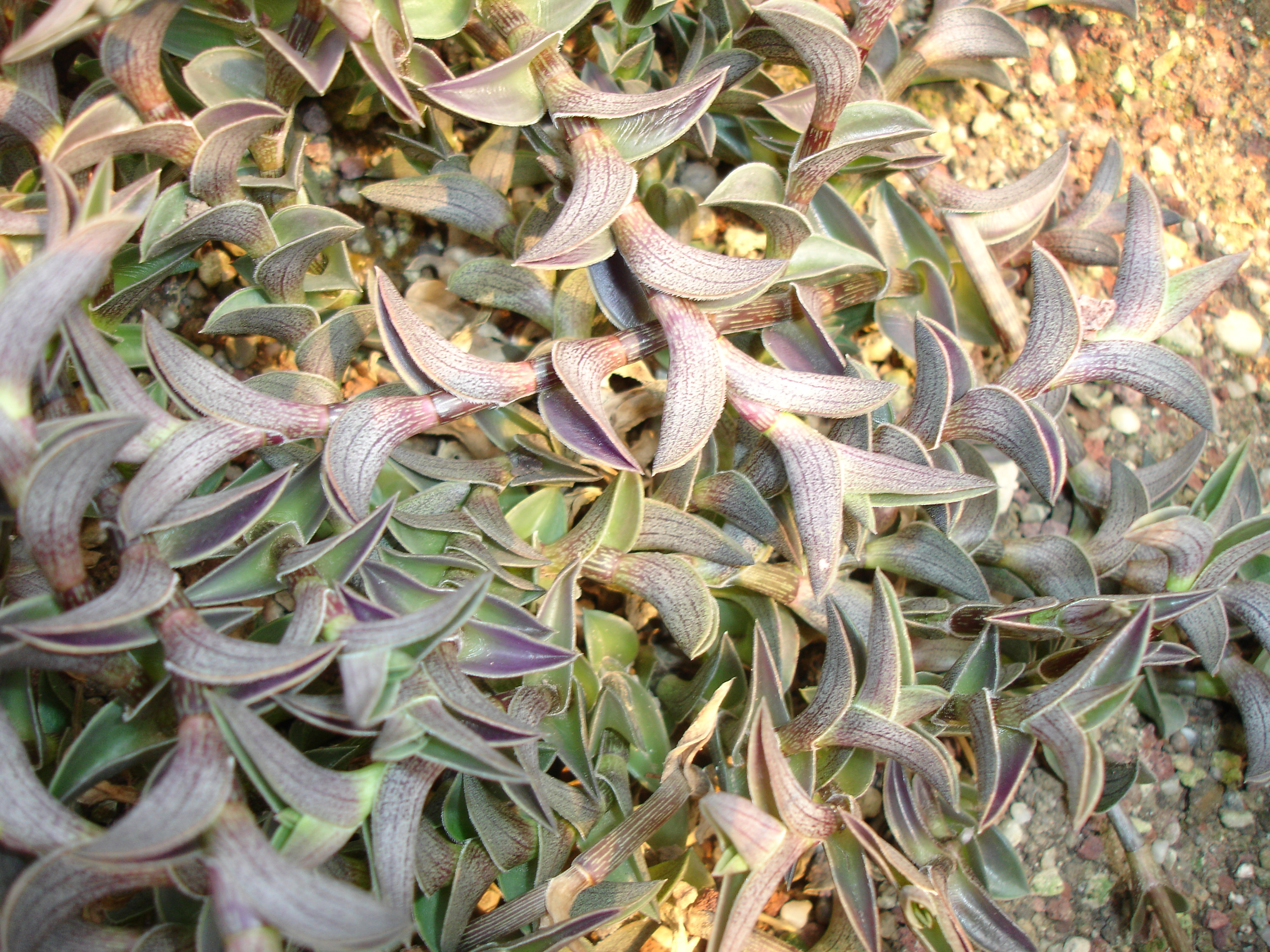 Tradescantia navicularis.